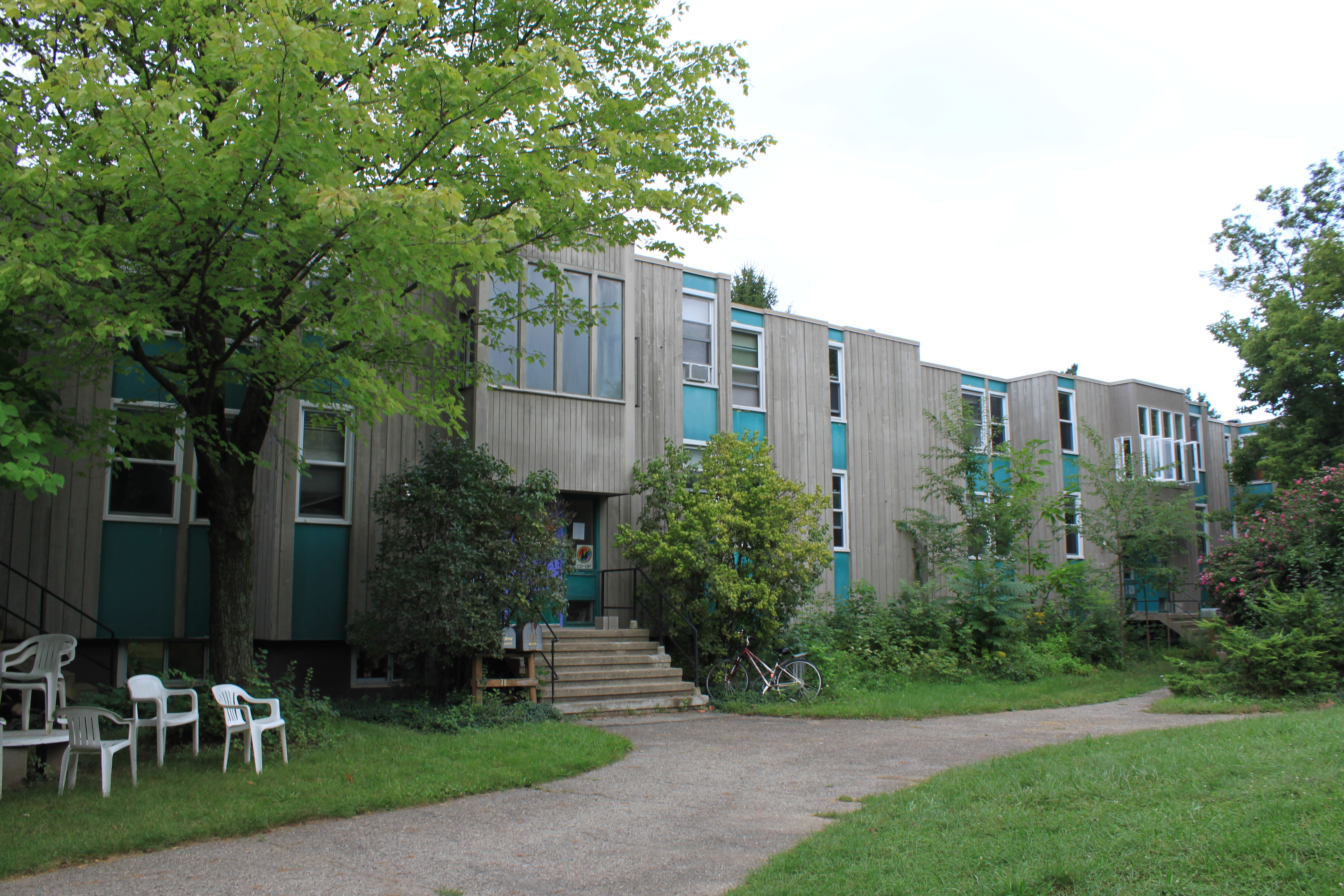 Georgia O'Keeffe Cooperative Housing, 1500-1510 Gilbert Court, University of Michigan, Ann Arbor Michigan